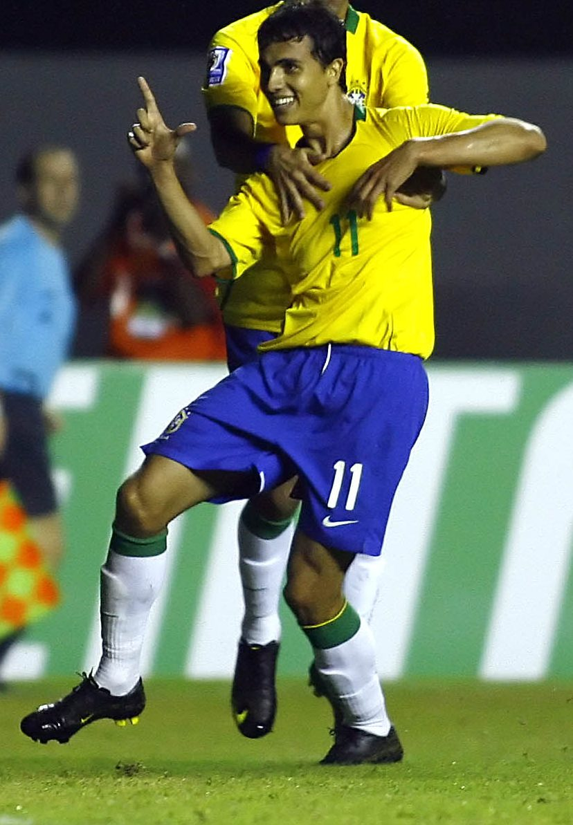 Nilmar Honorato da Silva after scoring for Brazil against Chile